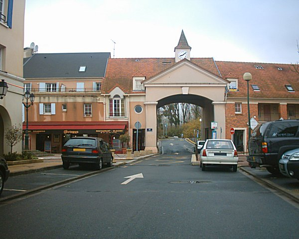 Port Cergy, Cergy on 03/03/06.